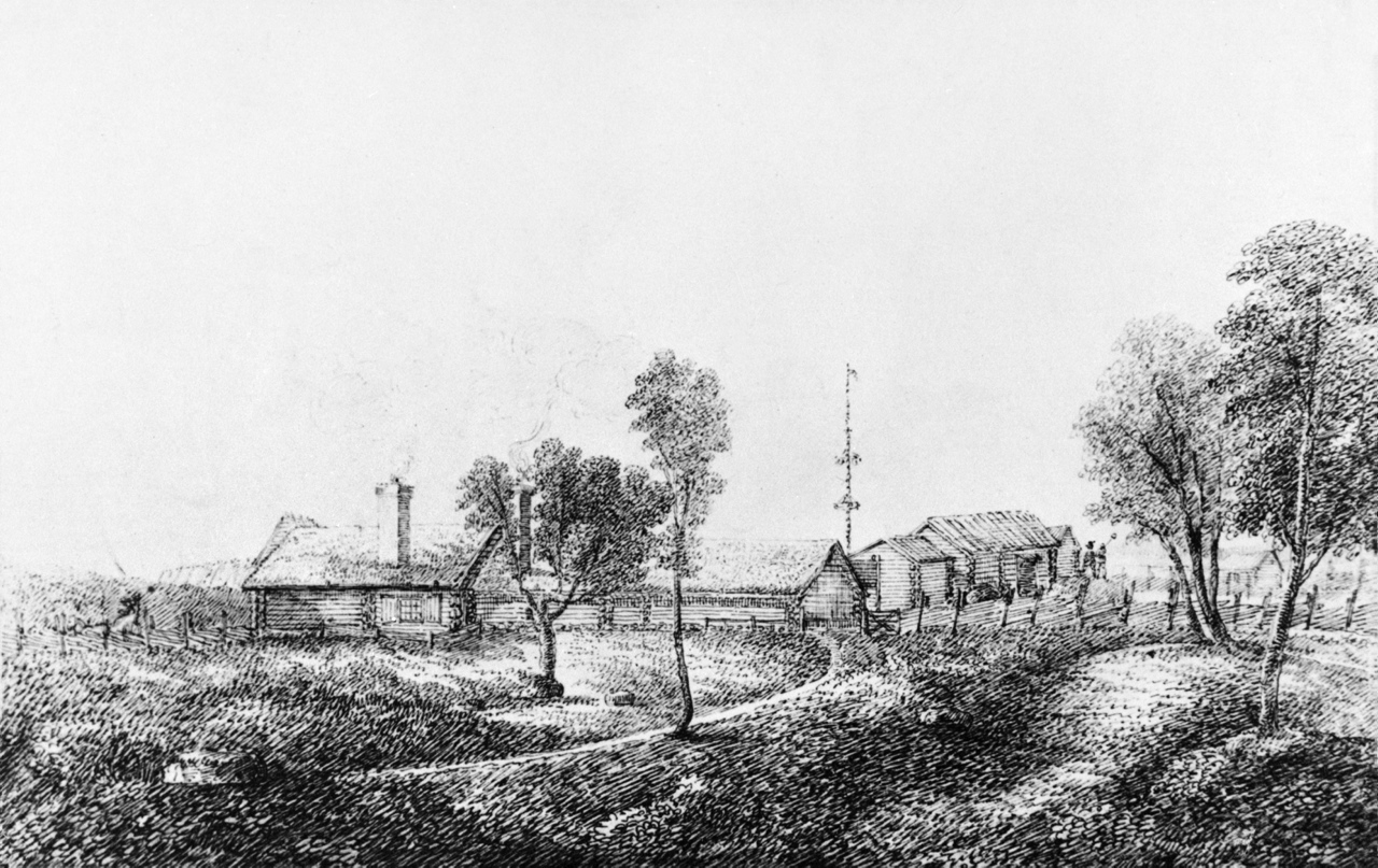 Hjulsta gård, Djurstad.Pennteckning från år 1811 av Axel Fr. Cederholm. 1811-1811